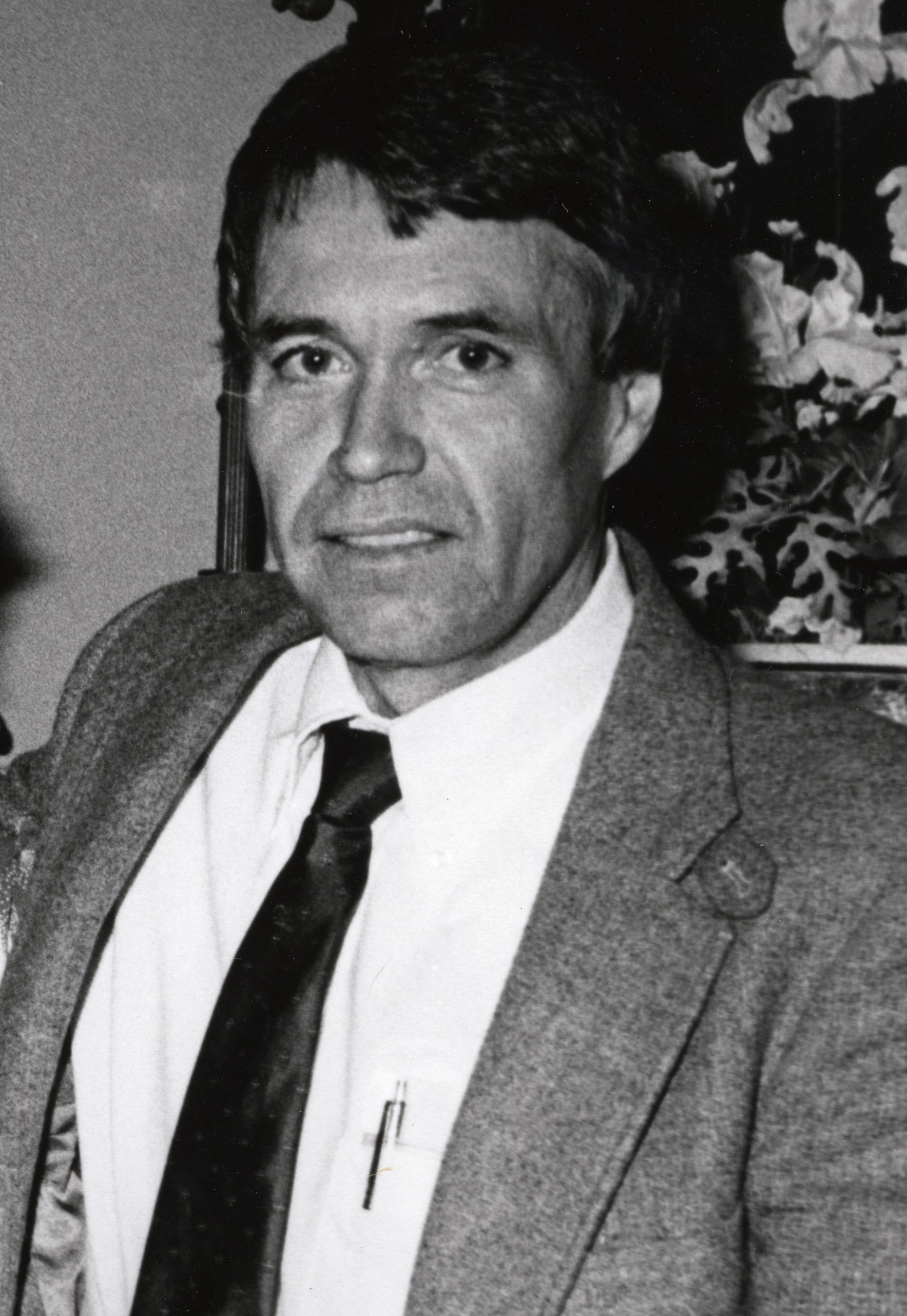 Title: Mayor Raymond L. Flynn, unidentified woman, Kathy Flynn and Francis M. "Mickey" Roache Creator: Mayor's Office - City Photographer Date: circa 1984-1987 Source: Mayor Raymond L. Flynn records, Collection #0246.001 File name: RF_0323 Rights: Copyright City of Boston Citation: Mayor Raymond L. Flynn records, Collection #0246.001, City of Boston Archives, Boston